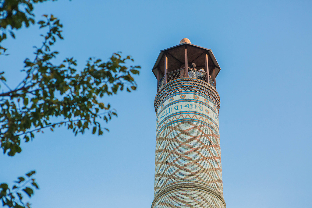 One of the newly resorted minarets